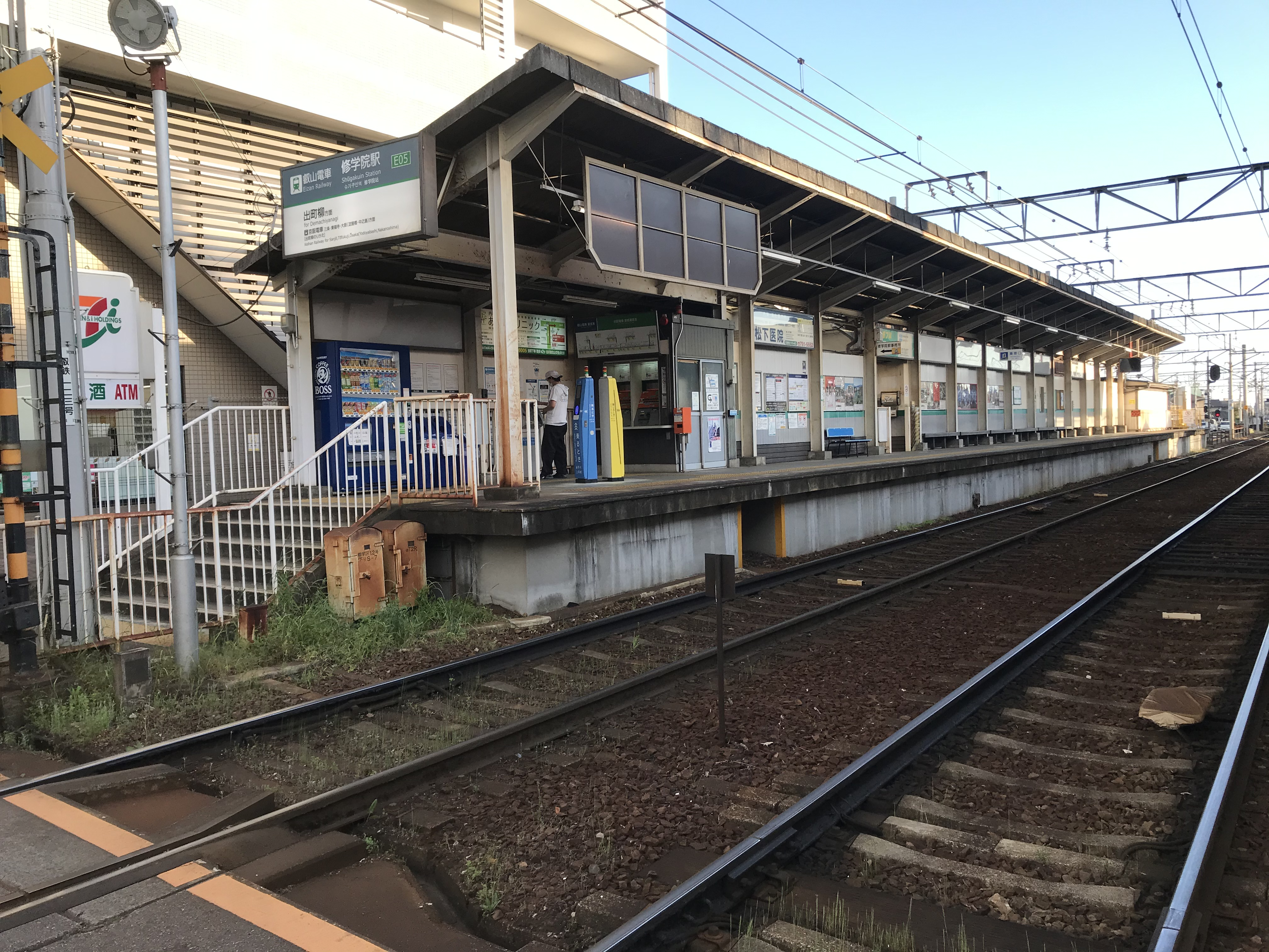 Eizan Electric Railway Shugakuin station Demachiyanagi bound platform viewing from northwest